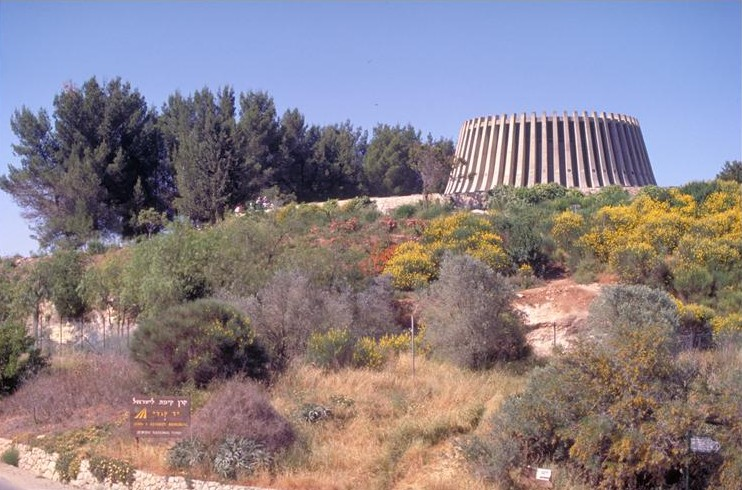 Photo of Yad Kennedy, the John F. Kennedy Memorial in Israel.